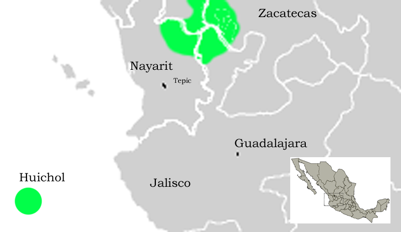 Map of Huichol Territory drawn by uploader